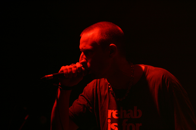 Zak Tell, vocalist in Swedish/Norwegian rapcore band Clawfinger. Photo from Szorpron, Hungary - 2008